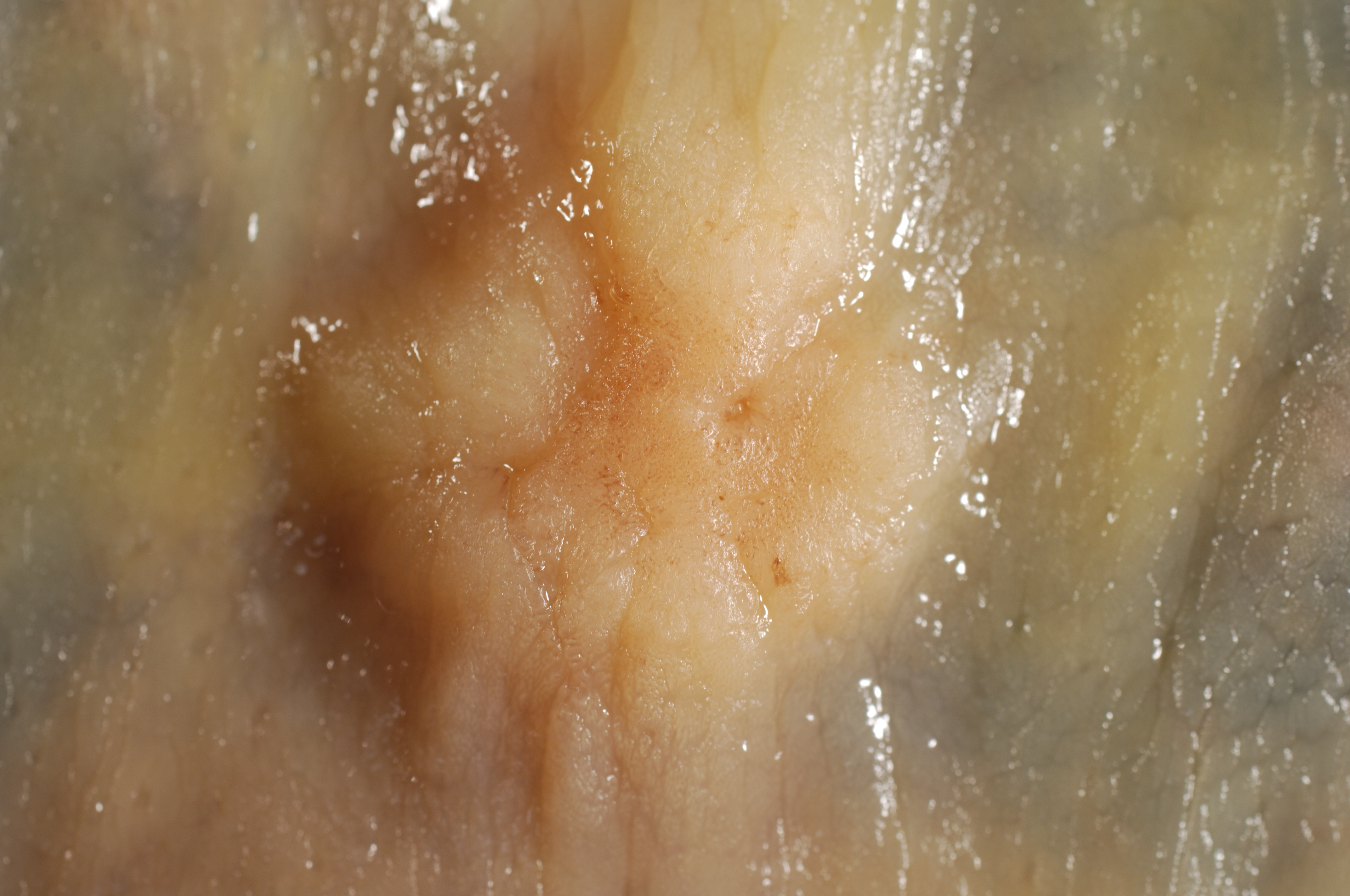 Adenocarcinoma of the Sigmoid Colon (en face, closeup)